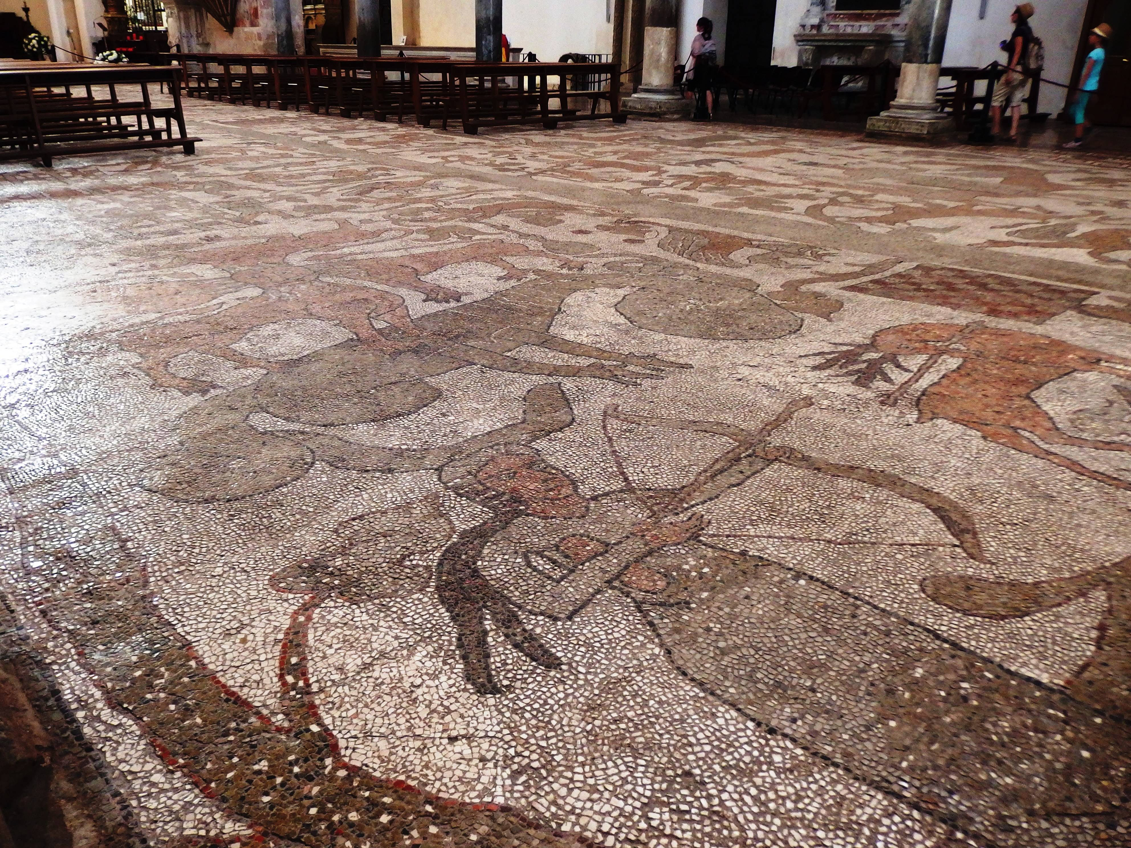 Otranto, Apulia, Italy. Interior of the cathedral, mosaic.